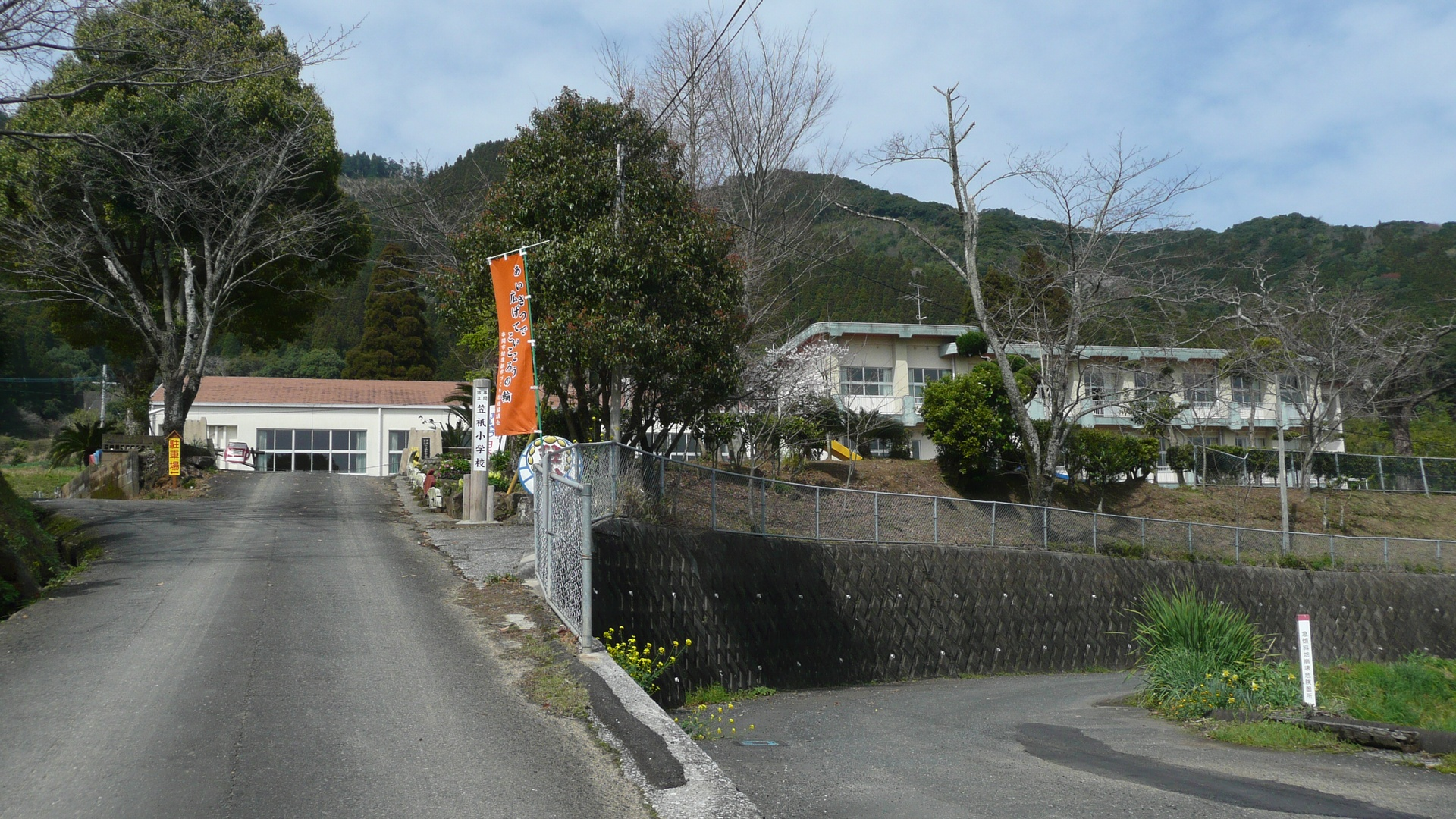 Kasagi Elementary School (Kushima City, Miyazaki, Japan)